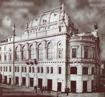 Southern facade of the Warsaw Philharmonic. The building was destroyed in a German air raid on Warsaw in 1939.[1]